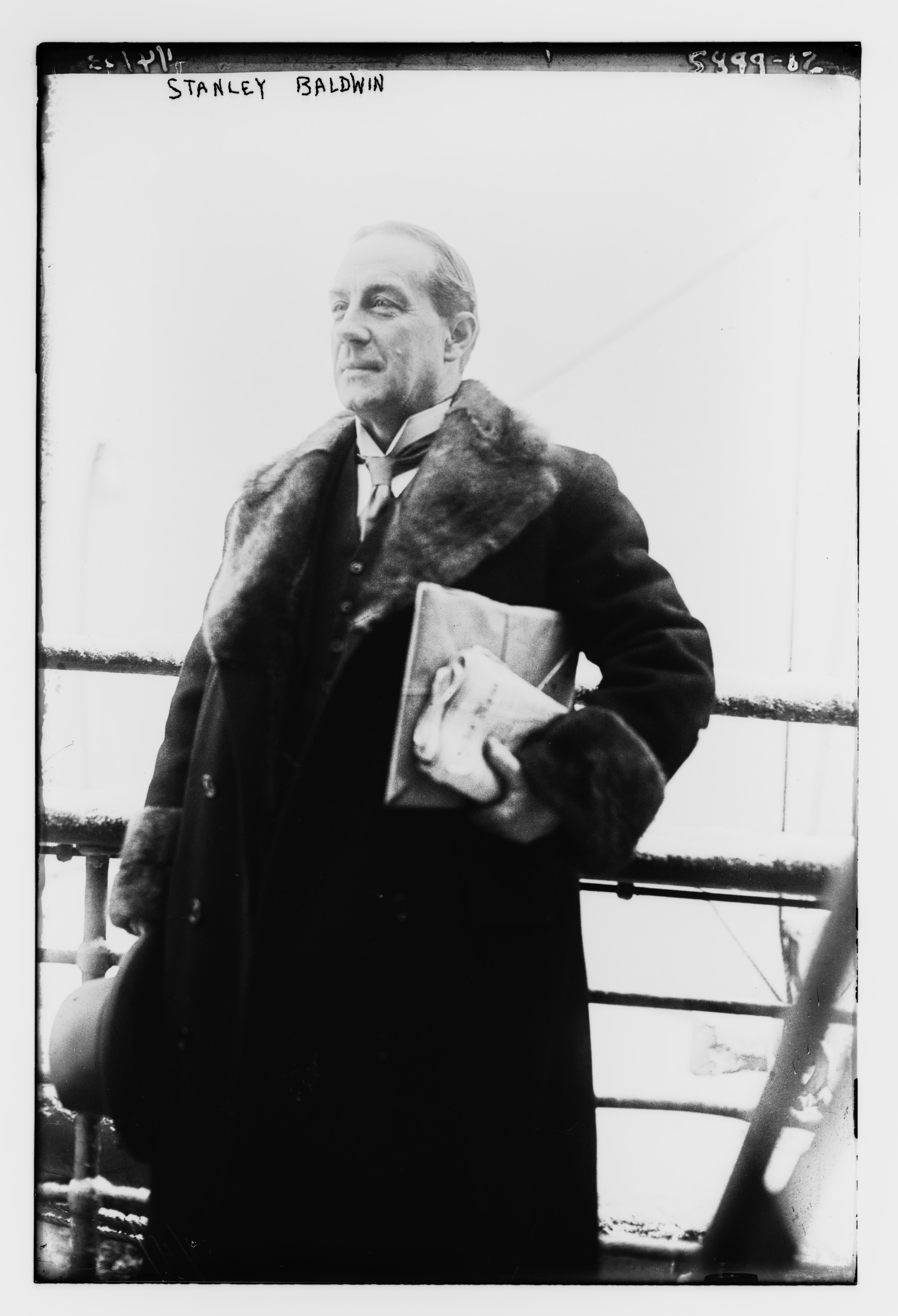 Title: Stanley Baldwin Abstract/medium: 1 negative : glass ; 5 x 7 in. or smaller.